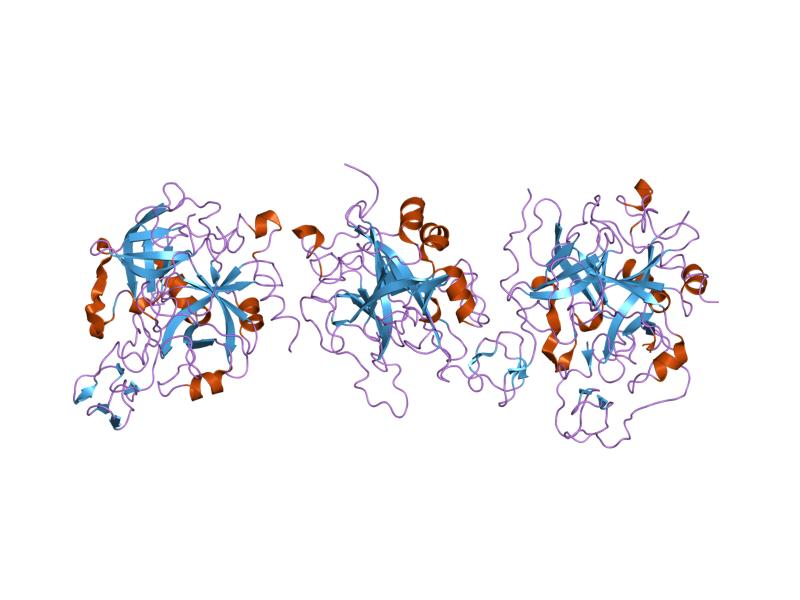 Cartoon representation of the molecular structure of protein registered with 1e0f code.